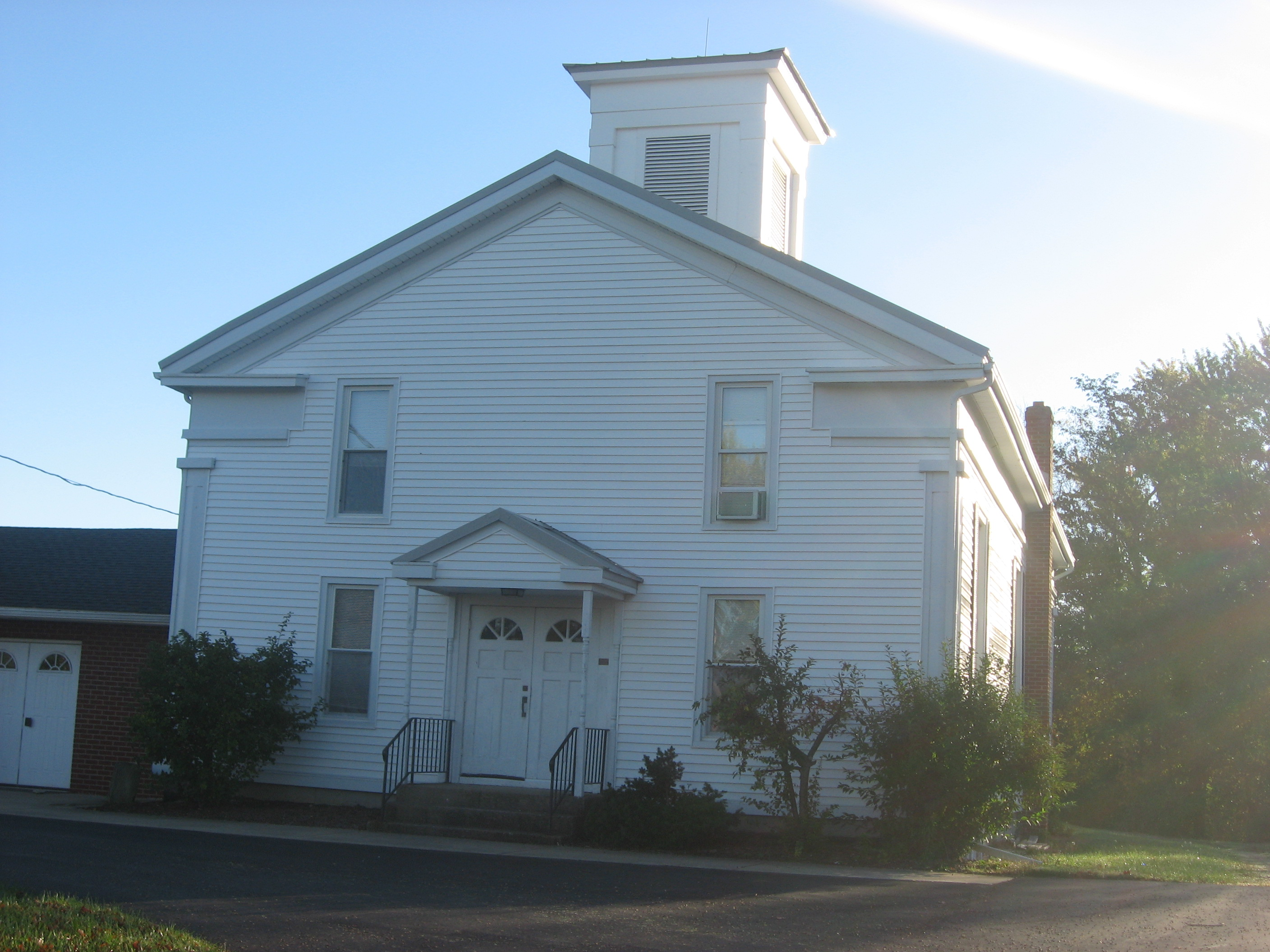 Front and southern side of the United Church of Huntington, a CCCC-affiliated church located at 26677 State Route 58 at Huntington Center in Huntington Township, Lorain County, Ohio, United States. Built in 1847, it is listed on the National Register of Historic Places.